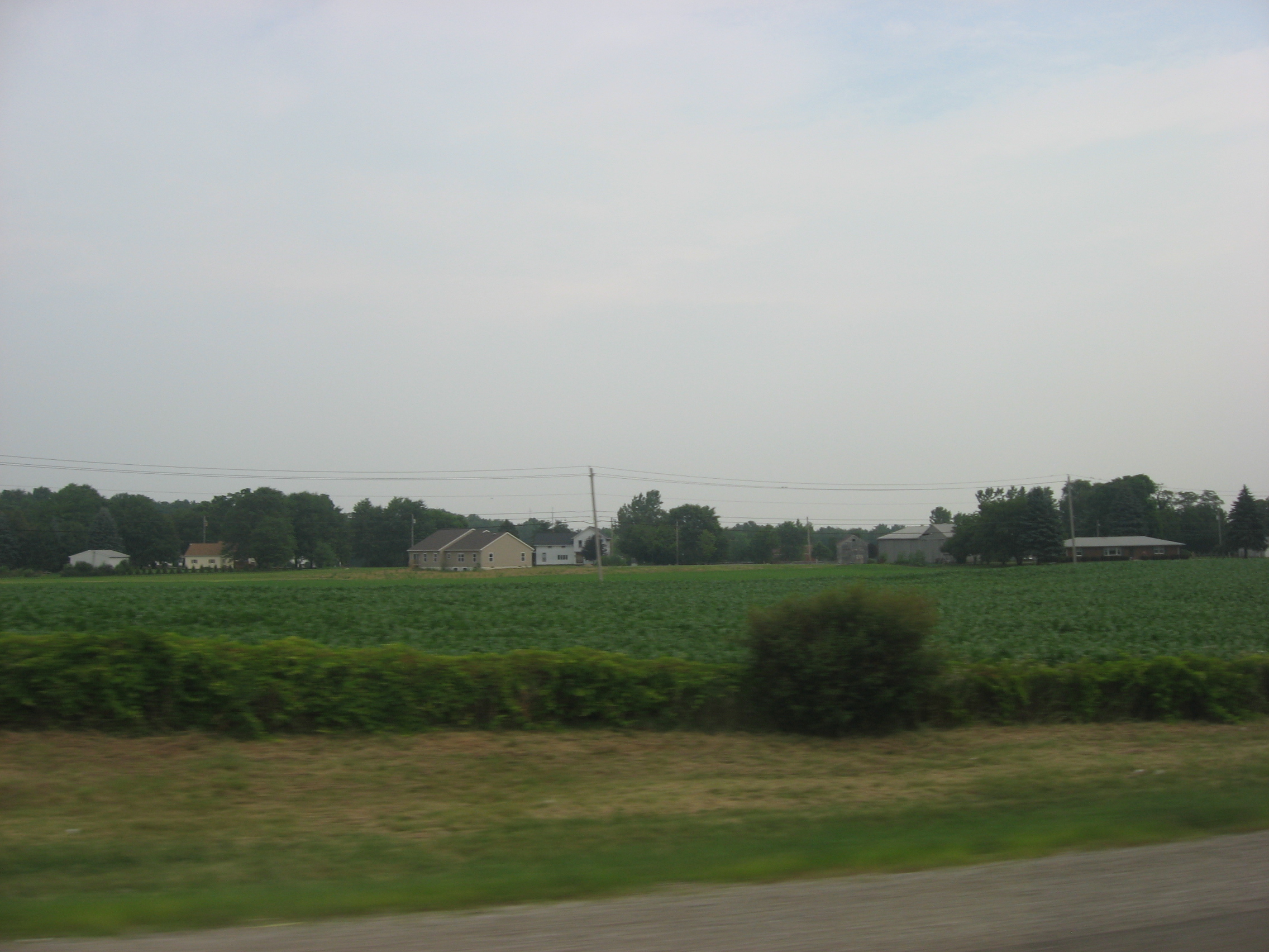 Houses in far western Amherst Township, Lorain County, Ohio, United States. Picture taken looking northward from the concurrent Interstates 80/90 (the Ohio Turnpike).